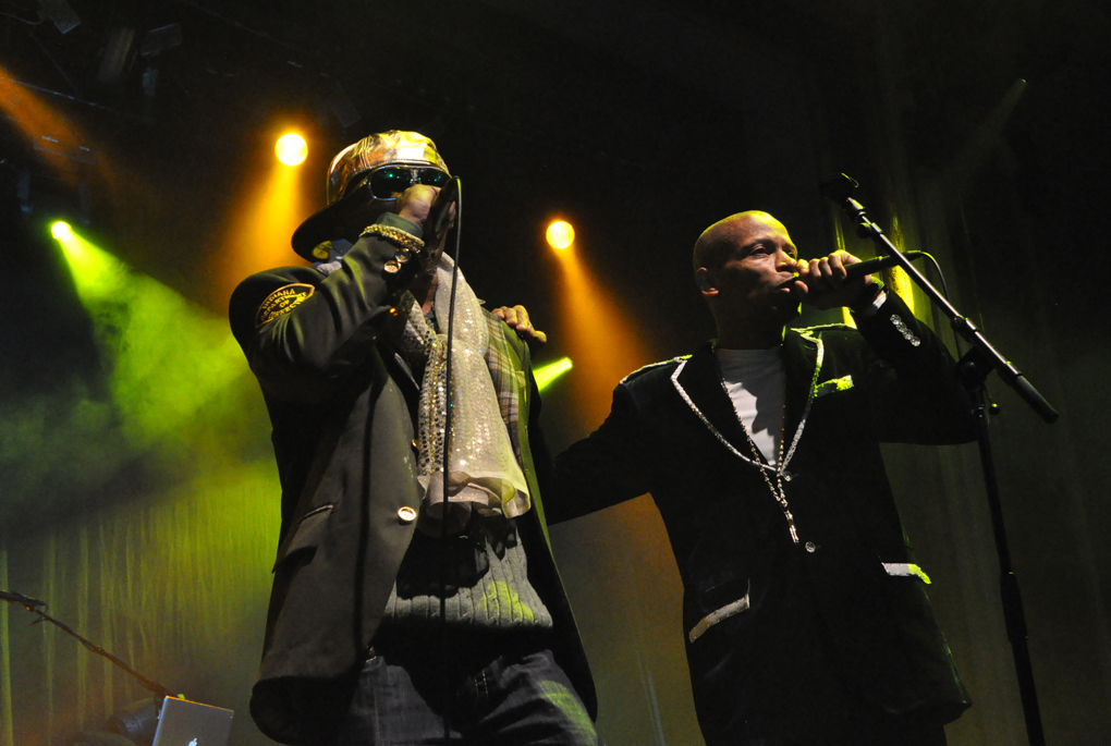 Ultramagnetic MCs performing at All Tomorrow's Parties/I'll Be Your Mirror music festival in Asbury Park, New Jersey, October 1, 2011